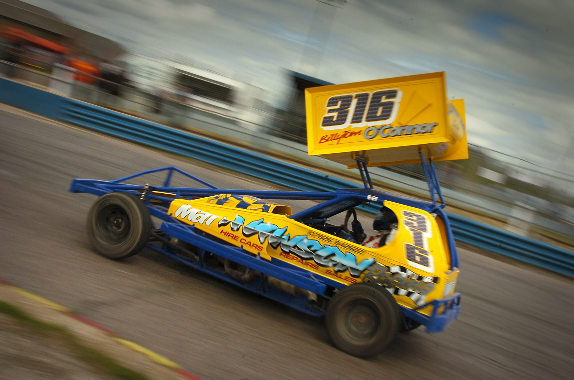 Malcolm "Fozzy" Foskett takes an F1 stock car for a spin, Swaffham Raceway, 2015-04-25.